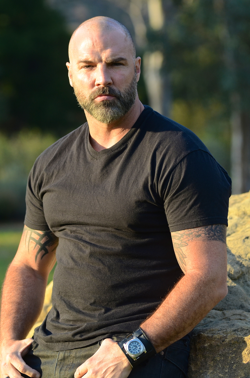 Tim Holmes_(actor), Filmmaker/Actor